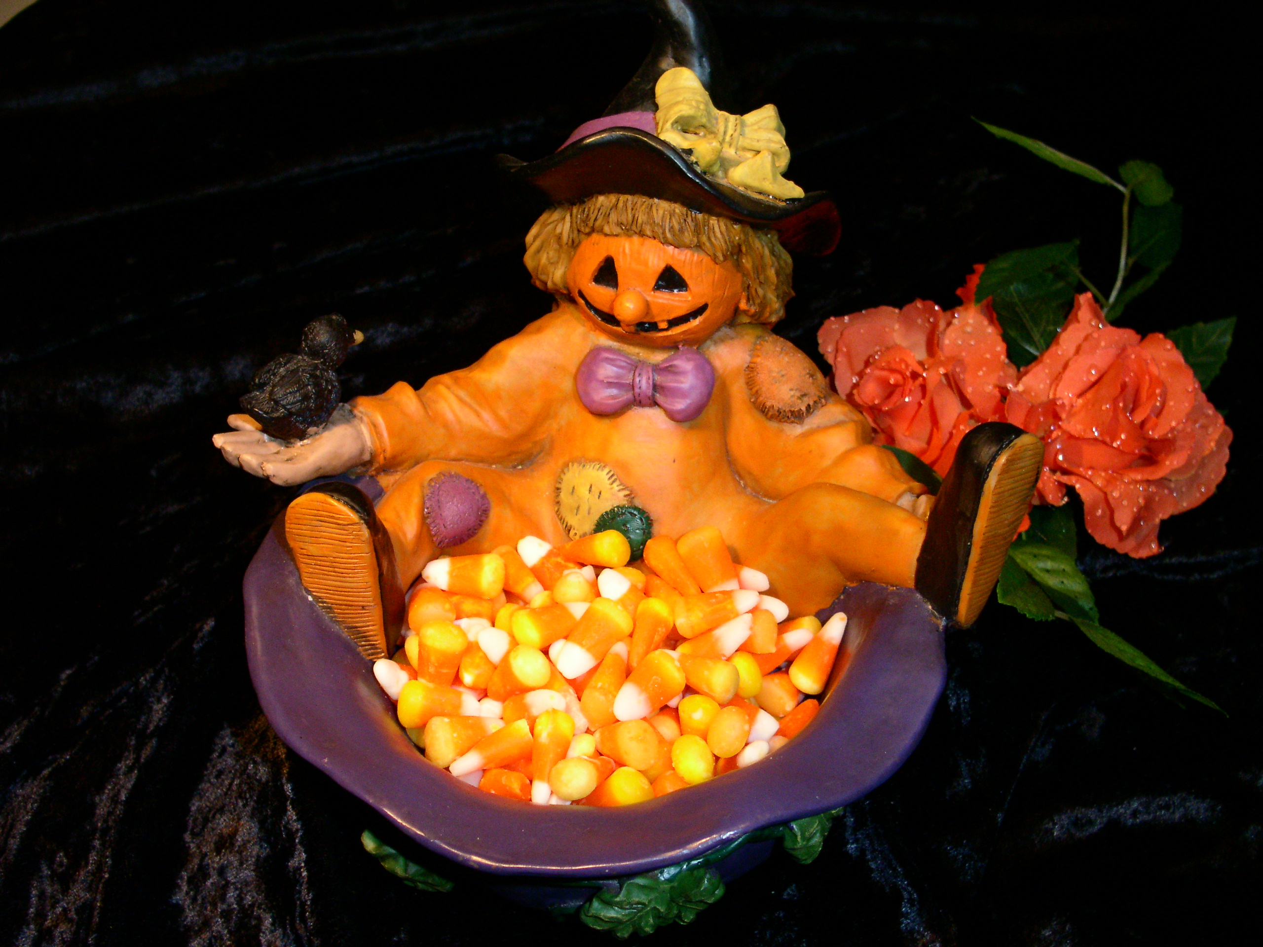 Candy Corn from Sweden